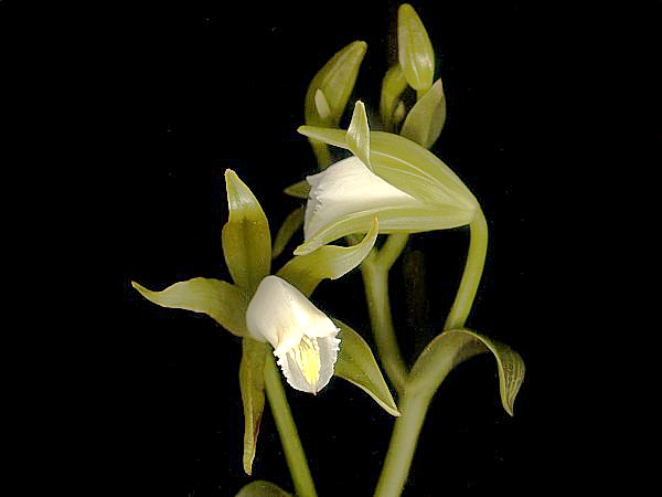 Vanilla dietschiana